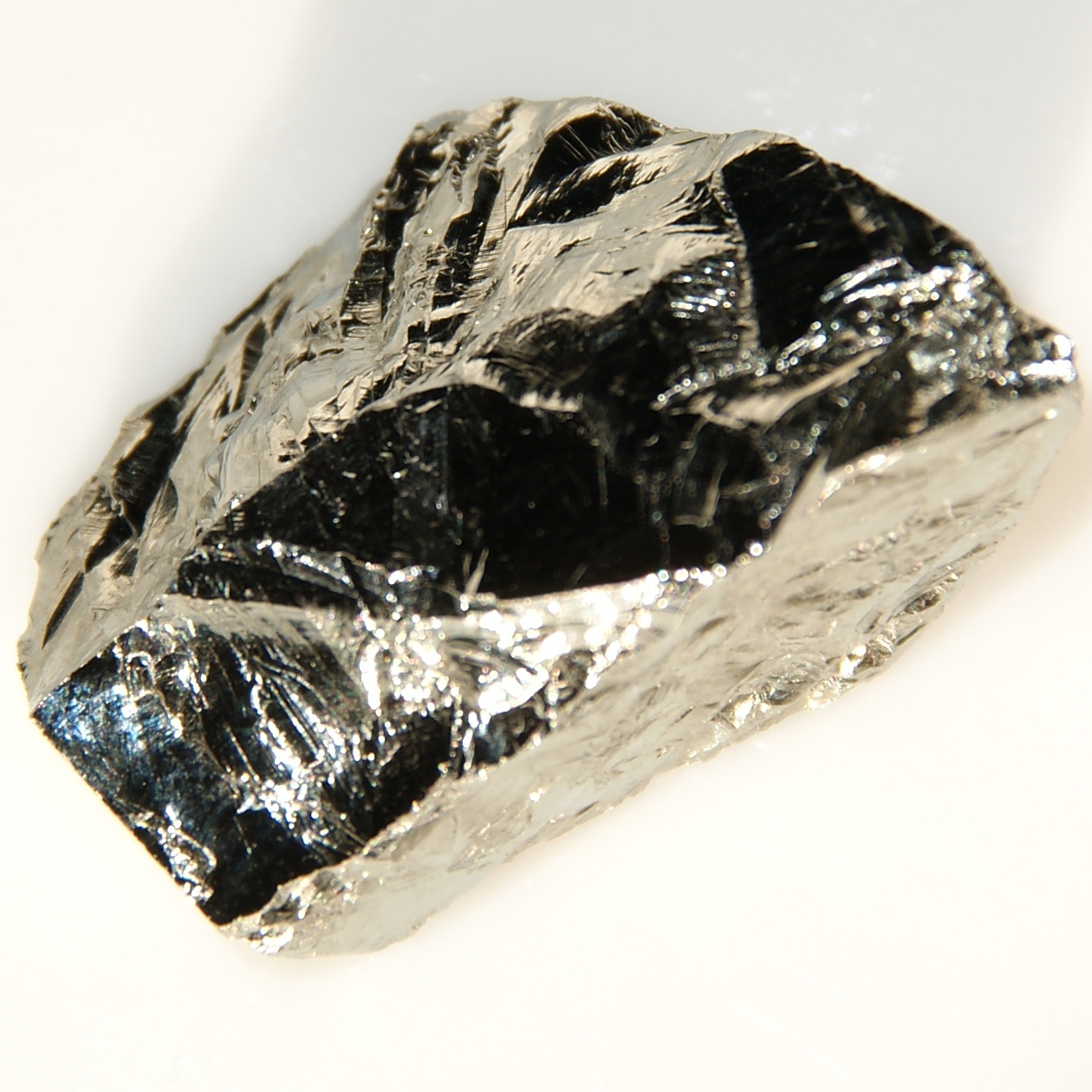 Germanium is a shiny silvery metalloid and a semiconductor. The latter makes it an important material in electronics and solar technology. Germanium is corrosion-resistant, very brittle and slightly toxic, it doesn't have biological functions. Sometimes organic germanium compounds are sold as obscure miracle cures. These have no medicinal benefit at all and are rather noxious.